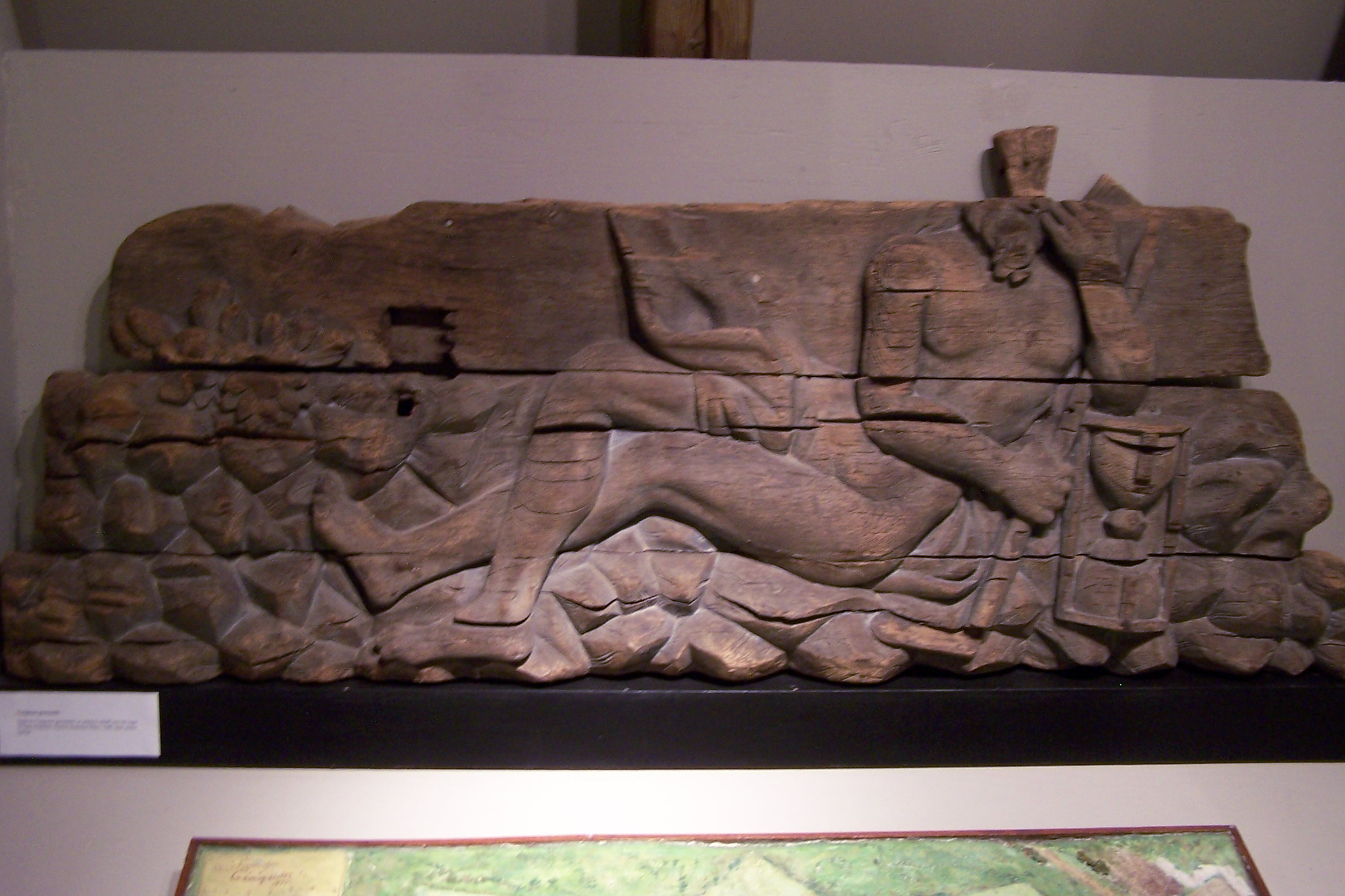 Fragment of monument from Johan Caspar de Cicignon's tomb, now in Fredrikstad Museum, Fredrikstad, Norway